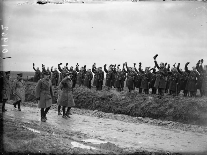 The British Expeditionary Force (bef) in France 1939-1940 Personalities: Major General the Hon Harold Alexander, GOC 1st Division, with HM King George VI inspecting the 2nd Battalion, Hampshire Regiment near Bachy.